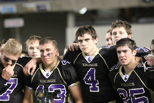 The football players crying after they lost the game at the Tacoma Dome.